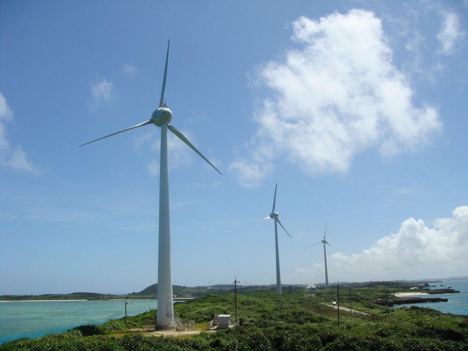 Cape Nishihennazaki, Miyako Island (Miyakojima City), Okinawa, Japan